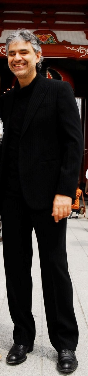 China